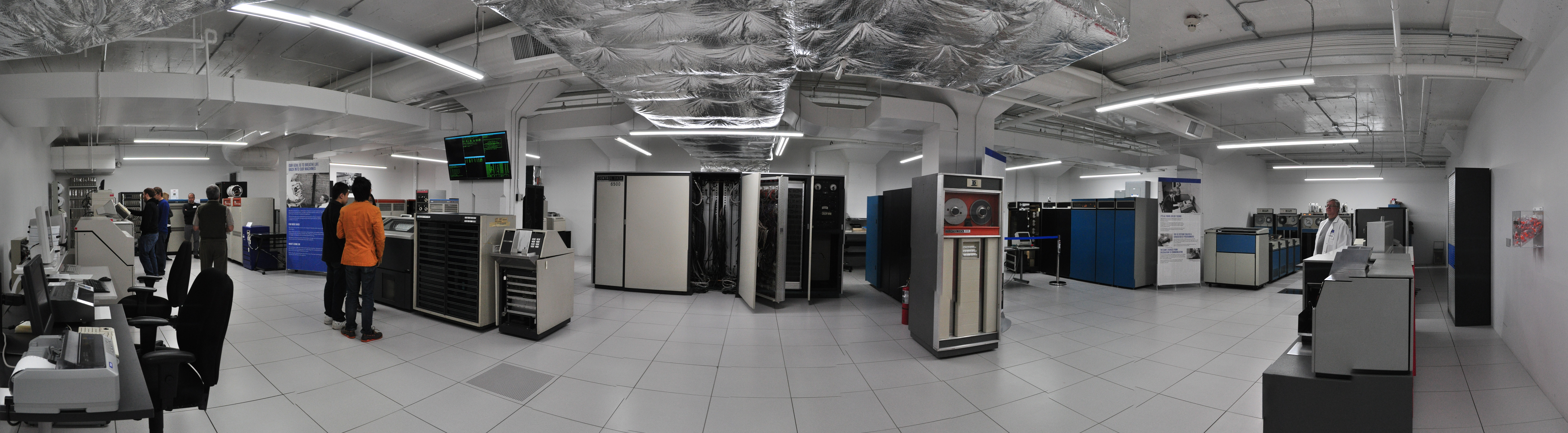 A roughly 180° panorama of the "conditioned" room of the Living Computer Museum, Seattle, Washington, USA. Slightly flawed on the floor and near ceiling: this was stitched from 13 photographs, taken hand-held in less-than-ideal circumstances. This image was created with Hugin.